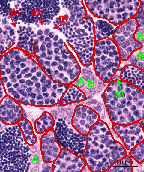 Zebrafish testis details (spermatocysts, interstitium, Sertoli cells etc.)